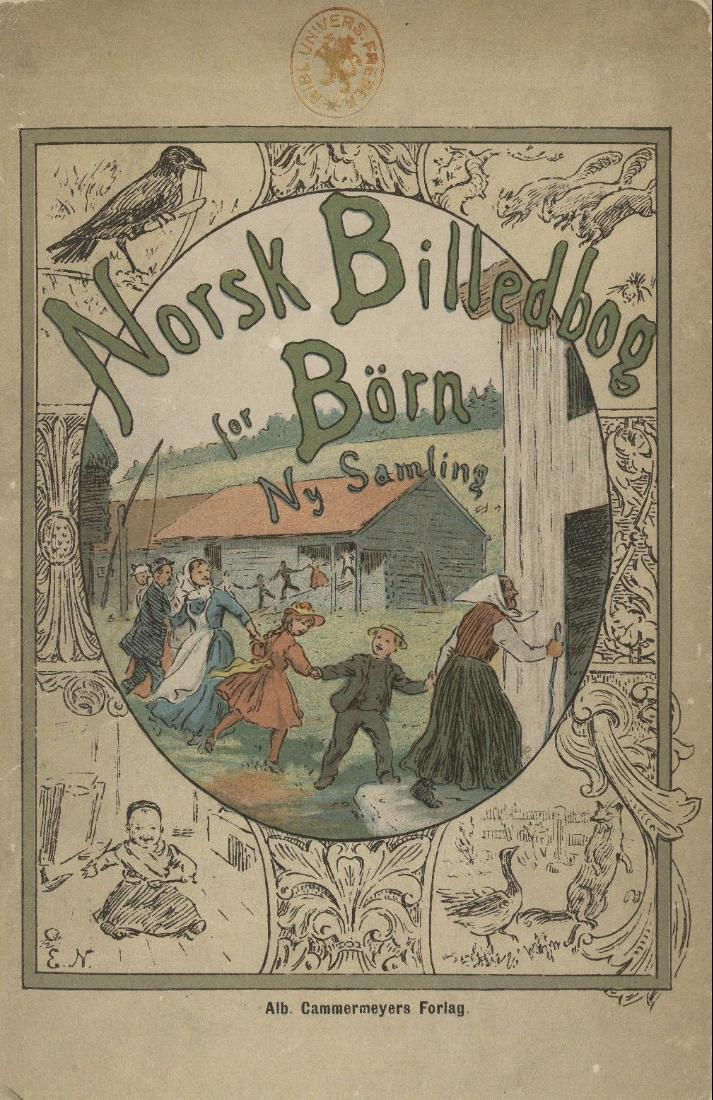 Title page from the childrens book "Norsk billedbog for børn" published in 1890.